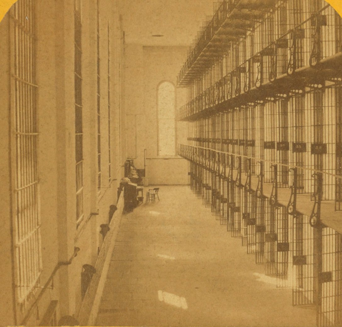 This image is a JPEG version of the original PNG image at File: Cells and passage in the house of corrections, from Robert N. Dennis collection of stereoscopic views.png. Generally, this JPEG version should be used when displaying the file from Commons, in order to reduce the file size of thumbnail images. However, any edits to the image should be based on the original PNG version in order to prevent generation loss, and both versions should be updated. Do not make edits based on this version. See here for more information. ArtistUnknownTitleCells and passage in the house of corrections.Date Created: ca. 1880. Digital item published 4-8-2005; updated 2-12-2009.MediumGelatin silver printsCurrent location New York Public Library Native nameNew York Public LibraryLocationNew York CityCoordinates40° 45′ 10″ N, 73° 58′ 54″ W Established1895Website control : Q219555 VIAF: 143013888 ISNI: 0000 0001 2173 6162 LCCN: n79033065 GND: 1006049-2 SUDOC: 026616637 WorldCat Stephen A. Schwarzman Building / Photography Collection, Miriam and Ira D. Wallach Division of Art, Prints and PhotographsAccession number Catalog Call Number: MFY Dennis Coll 90-F383 Record ID: 622148 Digital ID: G90F383_012F Source Original source: Robert N. Dennis collection of stereoscopic views. / United States. / States / Michigan / Stereoscopic views of Detroit, Michigan. (Approx. 72,000 stereoscopic views : 10 x 18 cm. or smaller.) This image is available from the New York Public Library's Digital Library under the digital ID G90F383_012F: → This tag does not indicate the copyright status of the attached work. A normal copyright tag is still required. See Commons:Licensing for more information. беларуская (тарашкевіца) | বাংলা | English | français | Nederlands | русский | Türkçe | 中文 |+/−